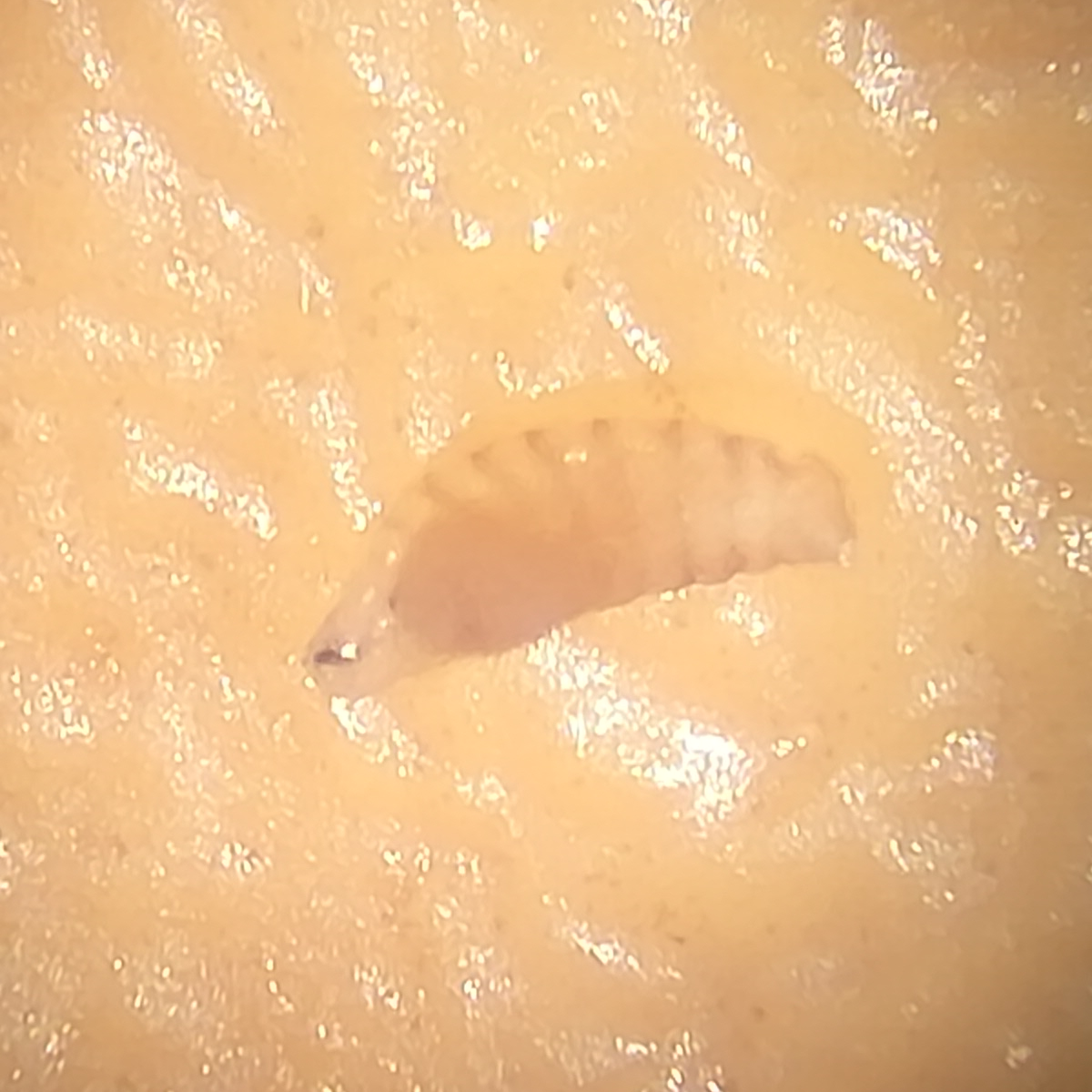 Drosophila paulistorum larva.